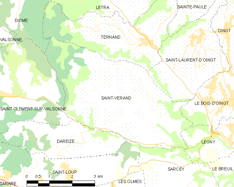 Map of French municipality